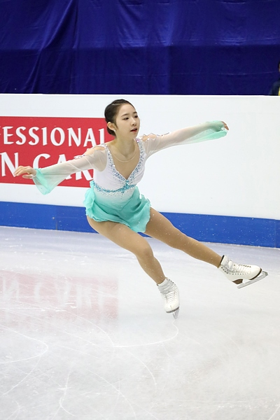 Photos – Four Continents Championships 2018 – Ladies (Dabin CHOI KOR – 4th Place)